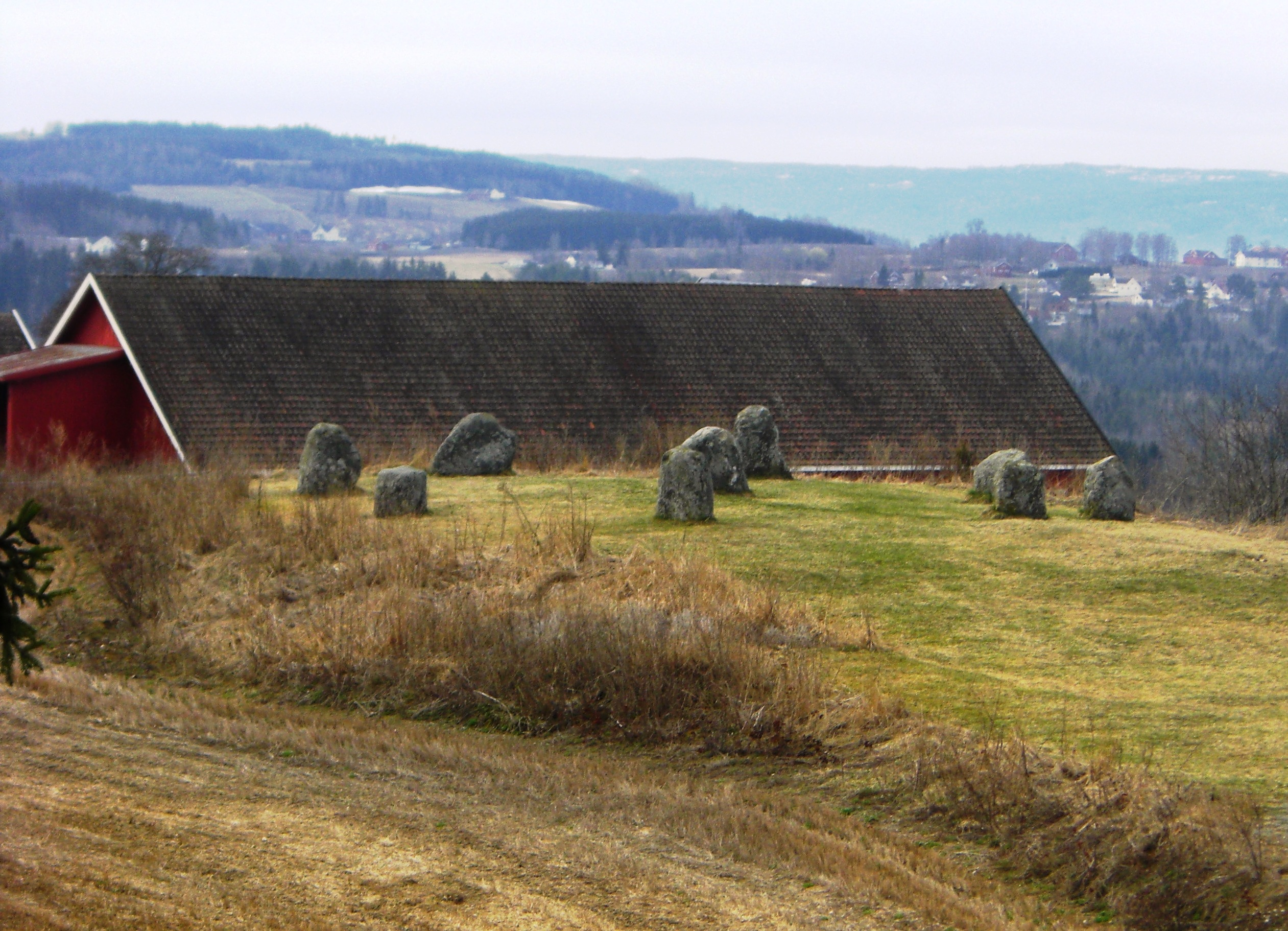 Stone ring at Bilden